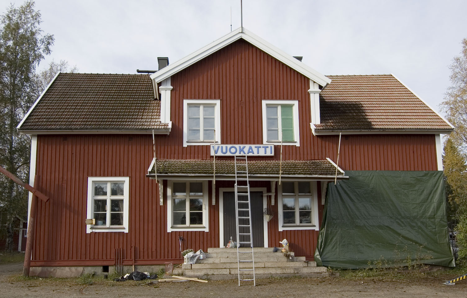 Vuokatti railway station, municipality of Sotkamo, Finland.